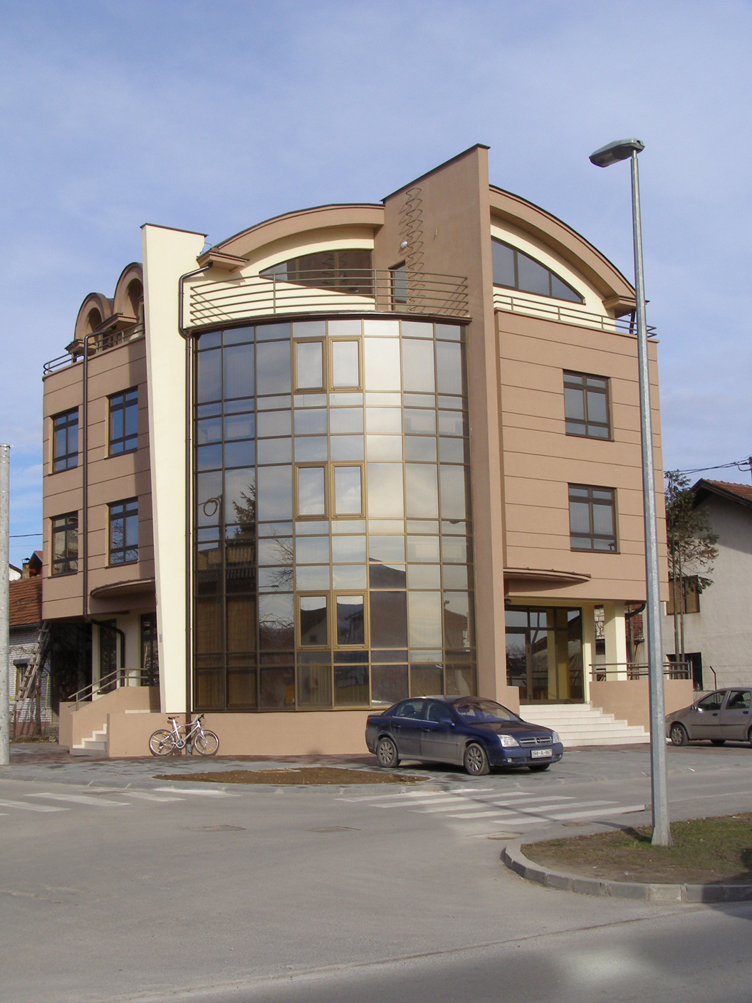 Building of Banja Luka College of Communications Kappa Phi.